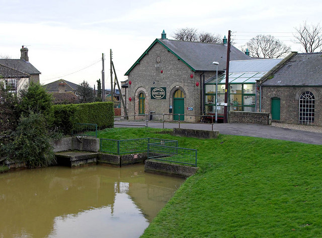 Drainage Engine Museum at Prickwillow near to Ely. A preserved steam driven pump, once used to drain The Fens.